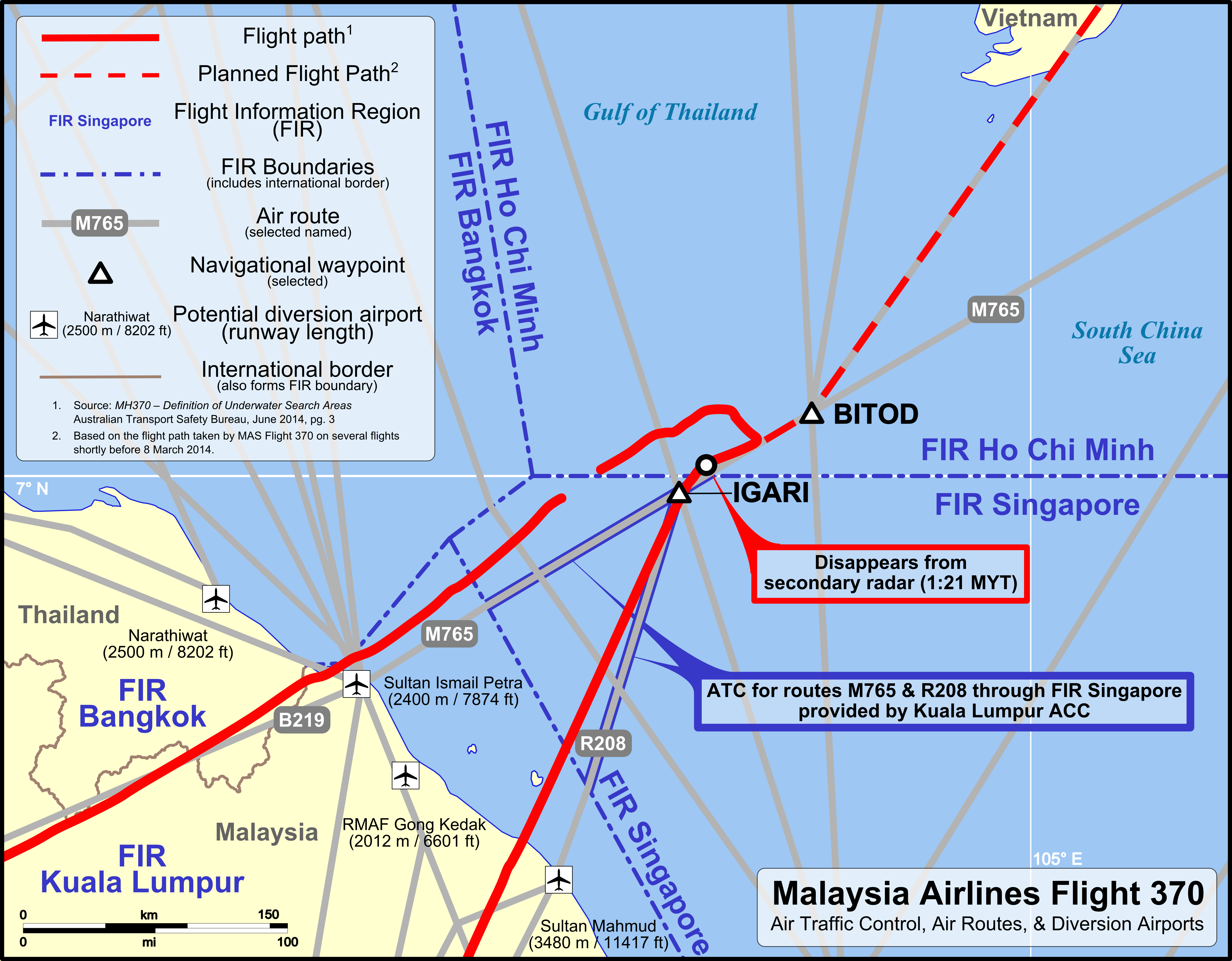 Map of the path taken by Malaysia Airlines Flight 370, with a focus on Flight Information Regions (the responsible air traffic control authority). Air routes and possible diversion airfields (runway over 5000 ft) are also depicted.